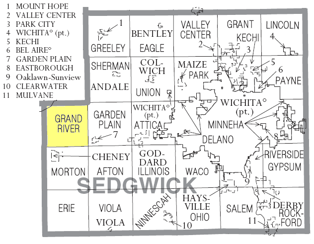 Map of Sedgwick County, Kansas highlighting Grand River Township